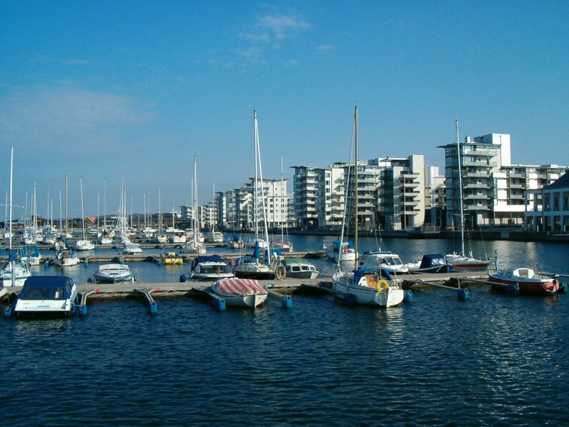 Small boat port in Helsingborg, Sweden.